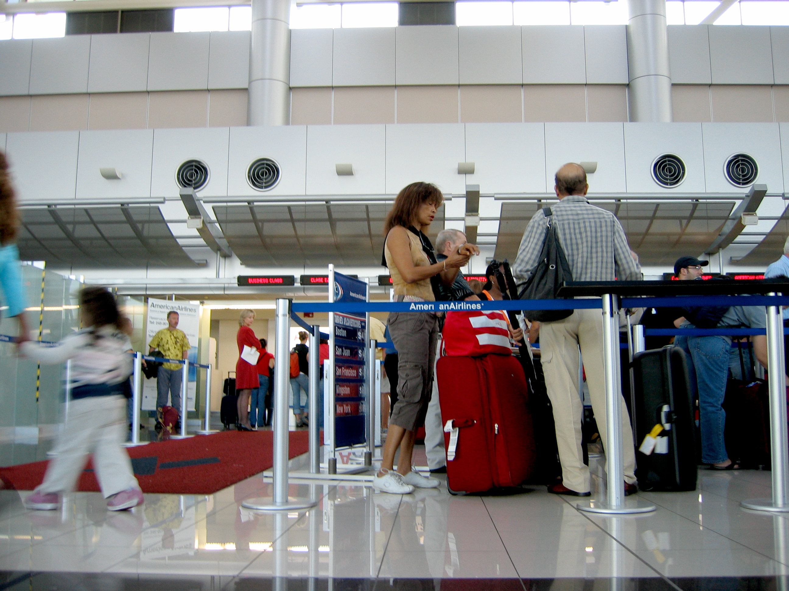 American Airlines airport check-in at Juan Santamaría International Airport (SJO) in San José, Costa Rica in August 2005.